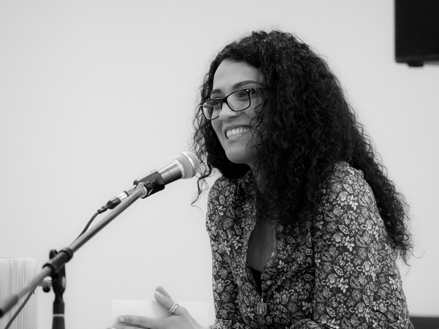 Poet Safiye Can, reading at Circassian Cultural Days in Cologne, 2017-04-15